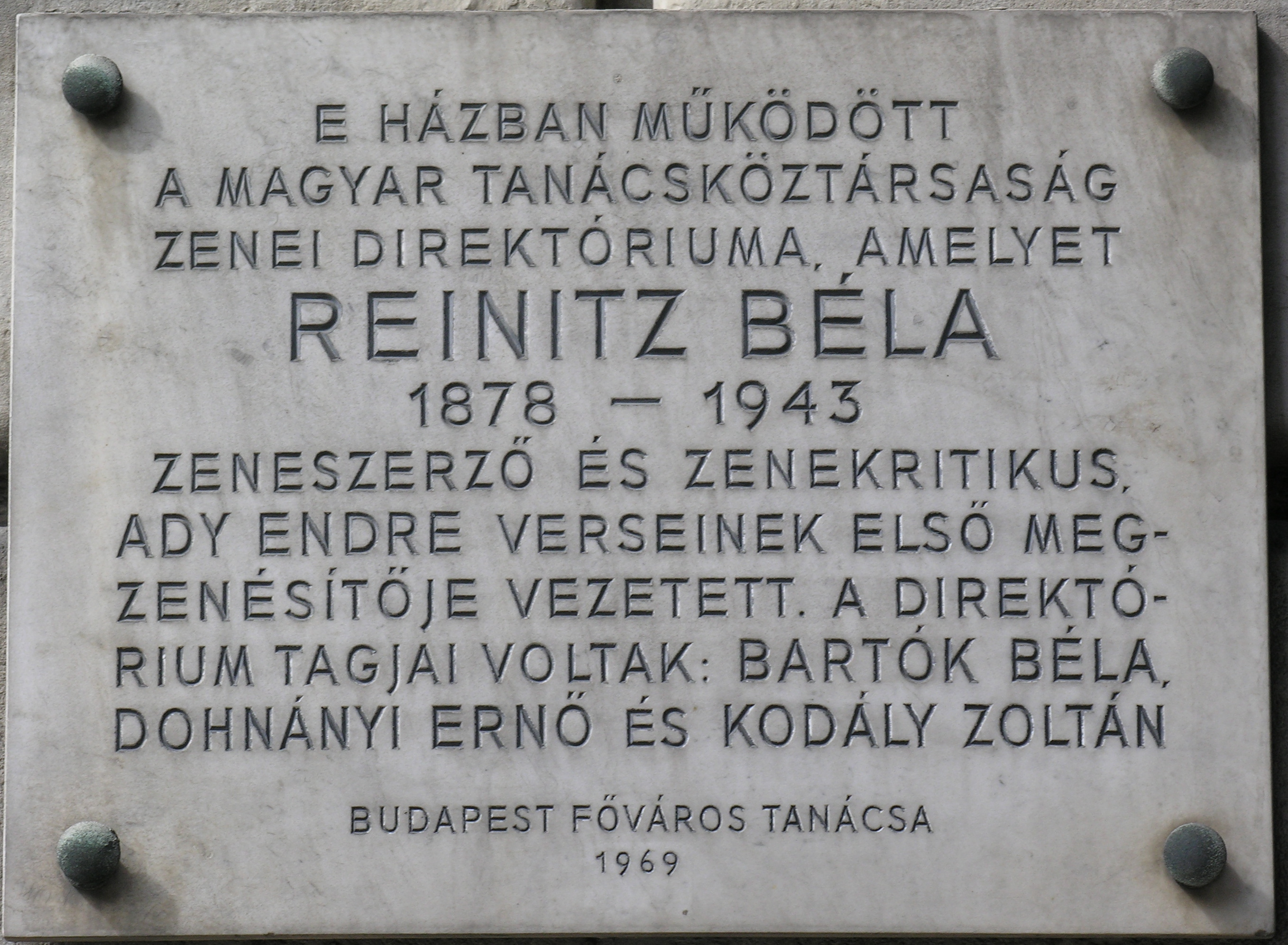 Béla Reinitz commemorative plaque in Budapest District V, Szemere Street No 6